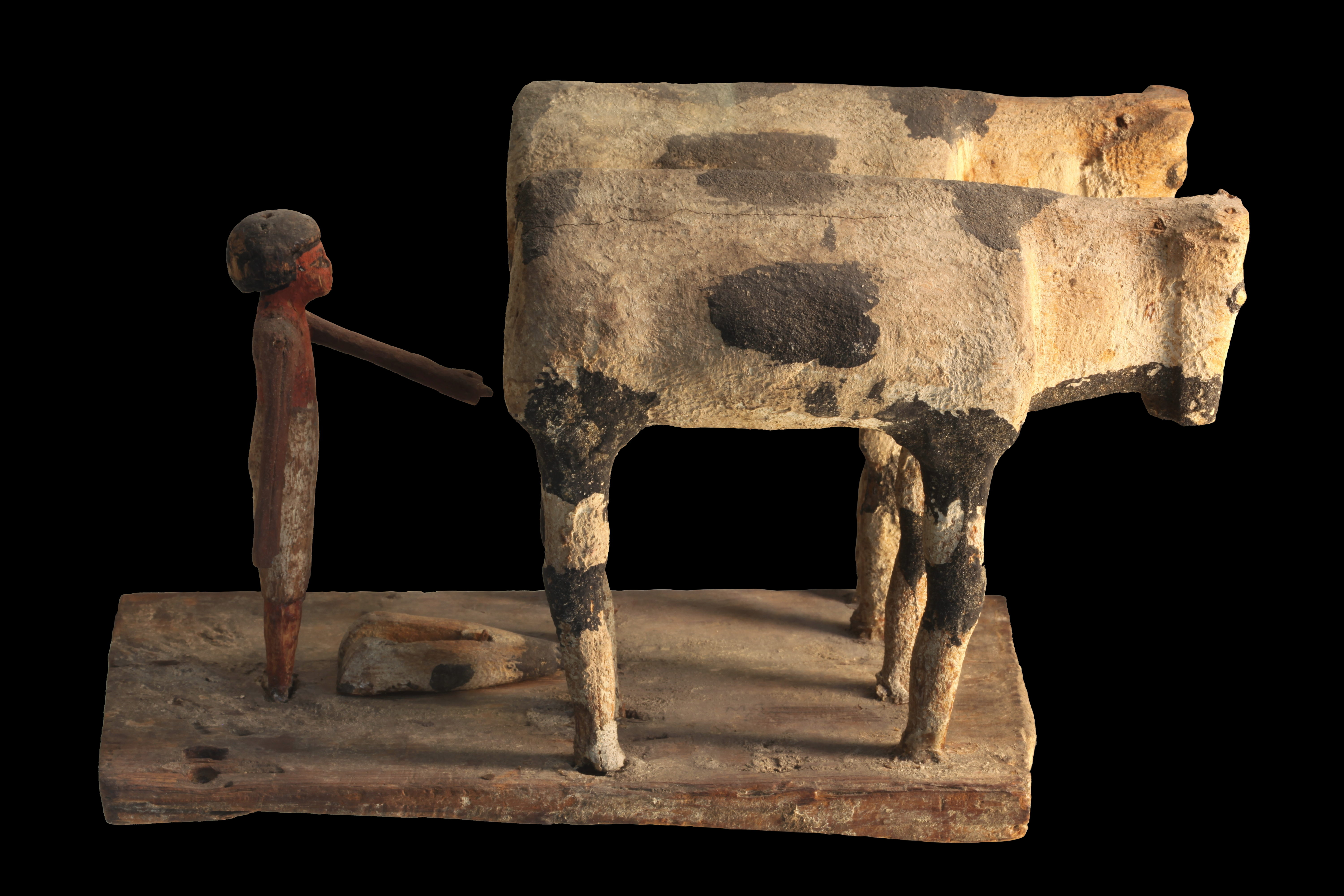 Plowing